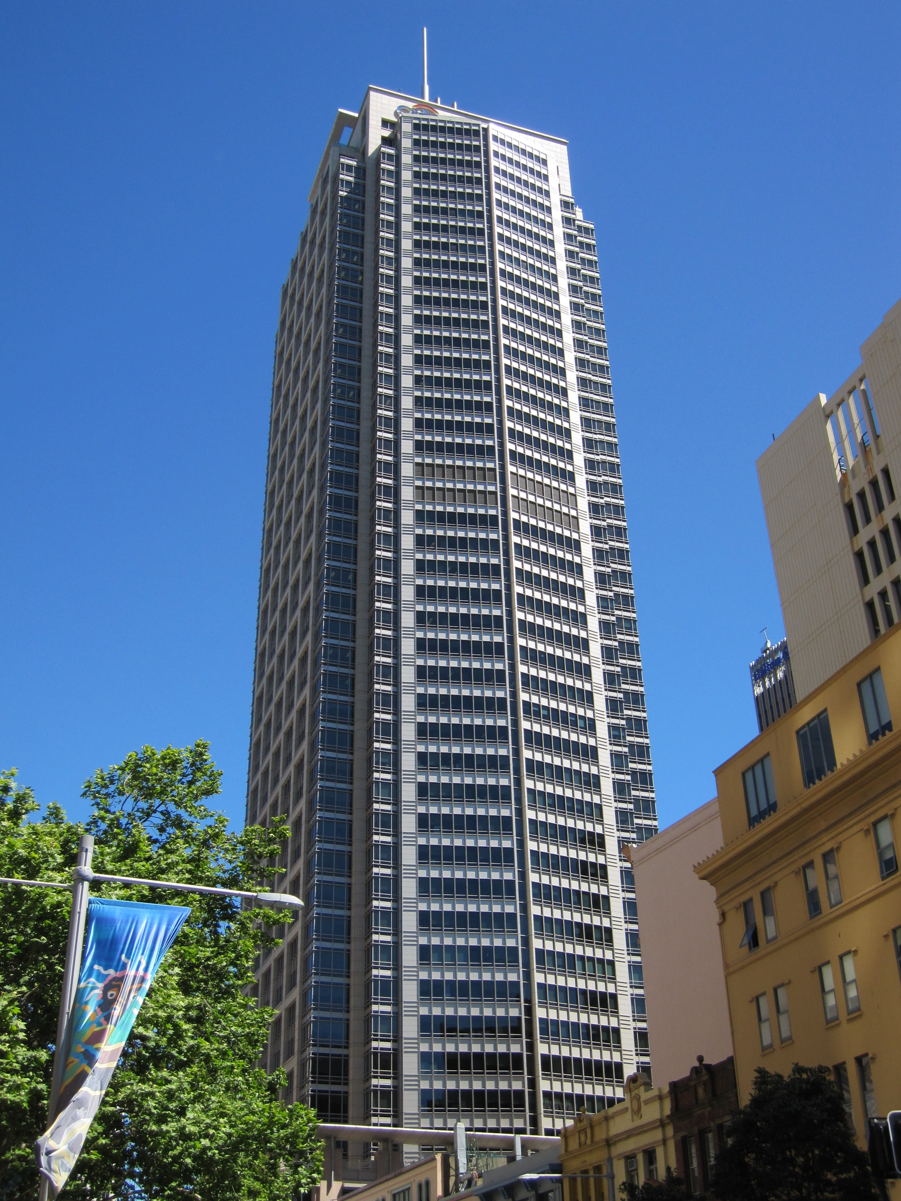 Citigroup Centre, 2 Pitt Street, Sydney